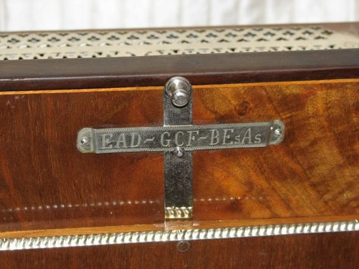 Key schift mechanic of a Stachl ditonic Box